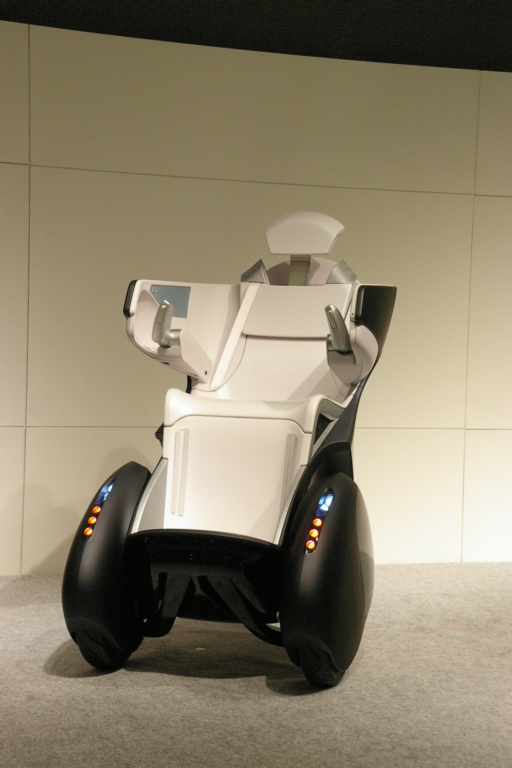 Toyota i-REAL.